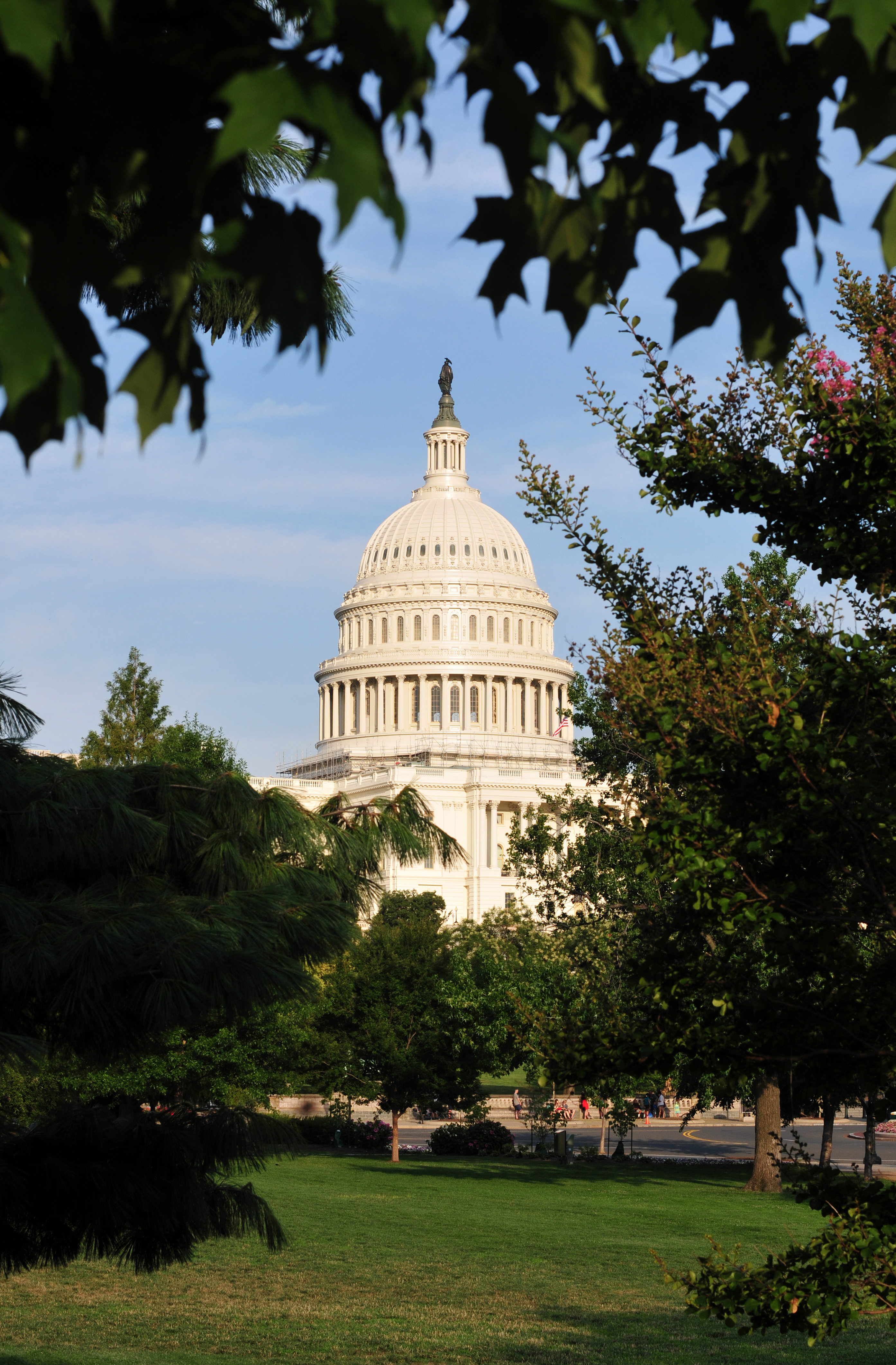 United States Capitol, Washington D.C. The making of this work was supported by Wikimedia Austria. For other files made with the support of Wikimedia Austria, please see the category Supported by Wikimedia Österreich.